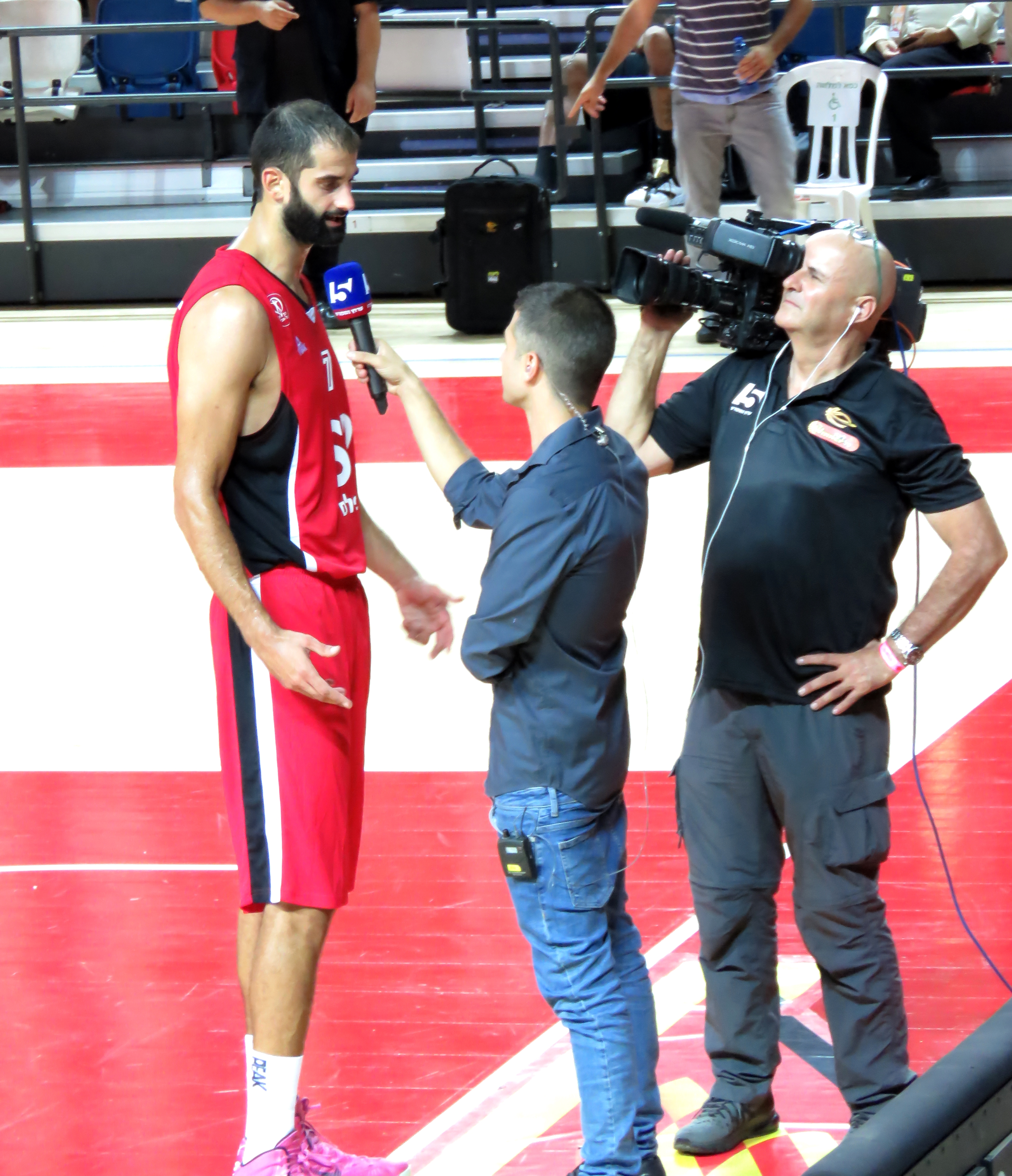 Hapoel Tel Aviv vs. Hapoel Jerusalem, 25 September, 2015